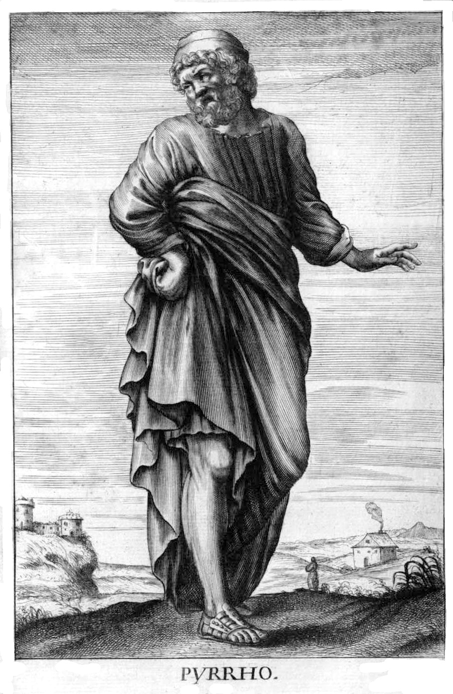 Pyrrho, ancient Greek philosopher. From Thomas Stanley, (1655), The history of philosophy: containing the lives, opinions, actions and Discourses of the Philosophers of every Sect, illustrated with effigies of divers of them.